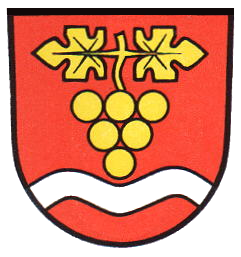 Coat of arms of Obersulm